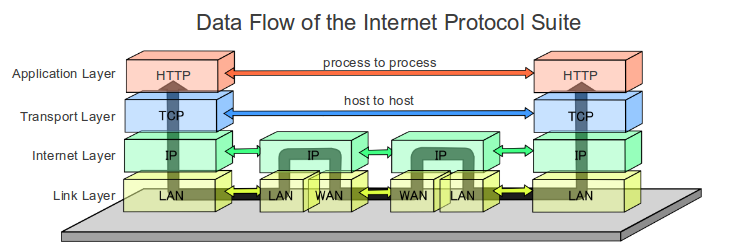 How the TCP/IP Model protocol suite model works.